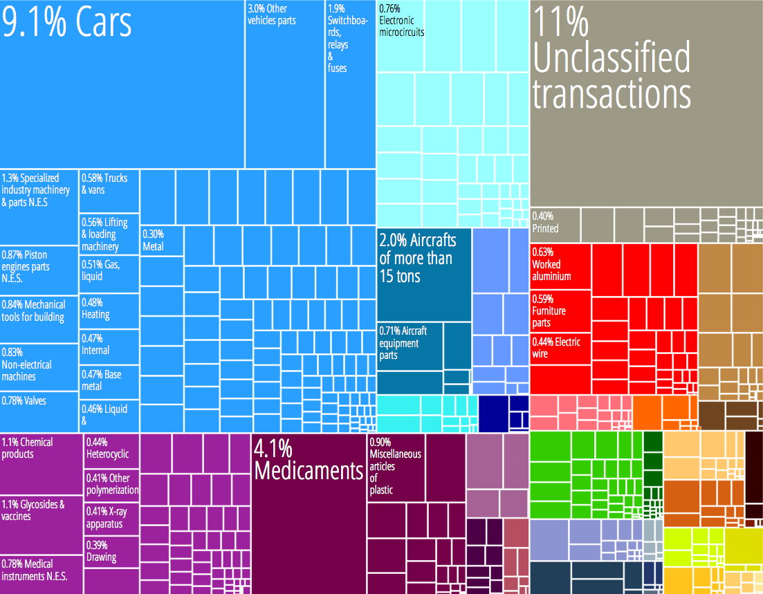 Graphical depiction of the country's product exports in 28 color coded categories. Each colored box represents one product and its size is proportional to the share of the country's total exports that the product represents.